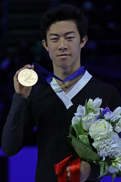 Photos – World Championships 2018 – Men (Medalists)